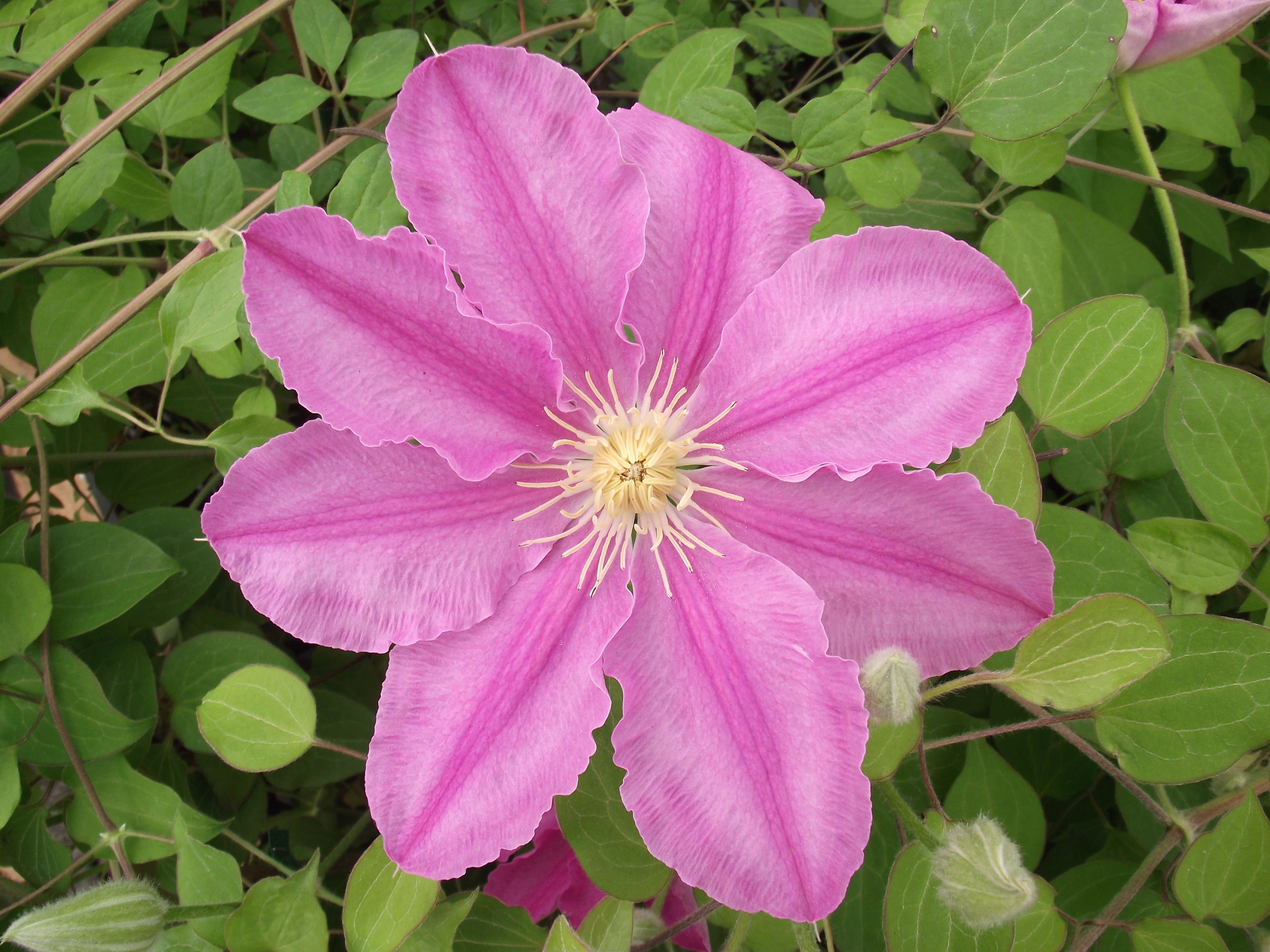 Clematis patens Abilène